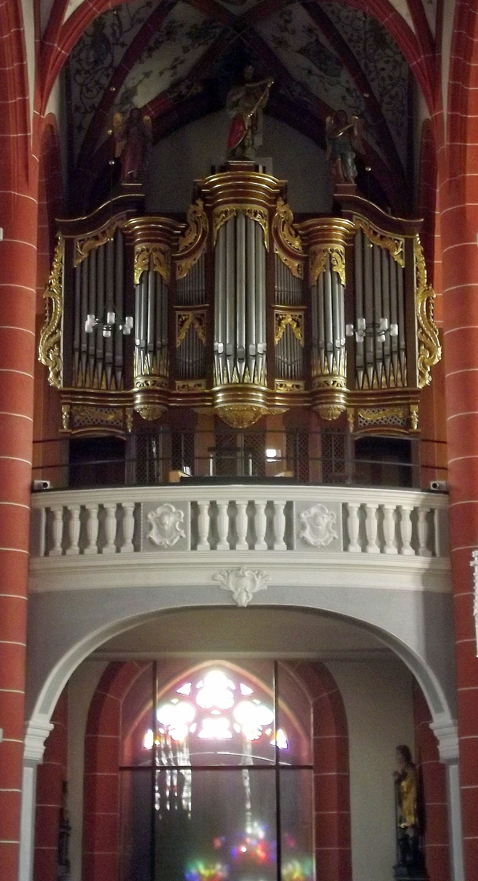 Klais-Organ of the St. Wendelin's church in St. Wendel, Saarland, Germany